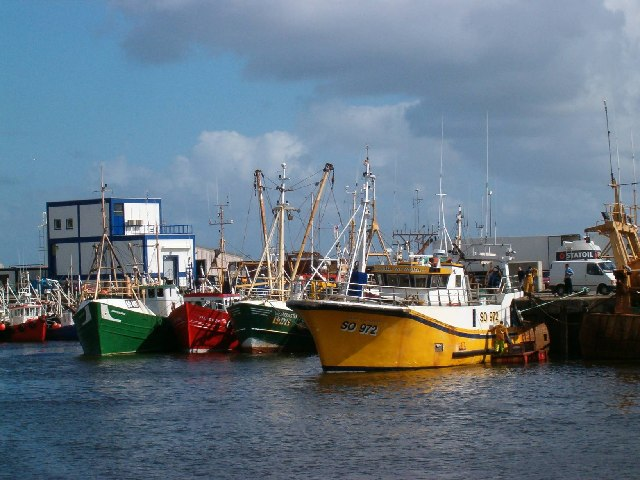 Fishing Fleet, Greencastle, Inishowen. Greencastle is home to the Irish Fisheries Training College and one of the most modern fishing fleets in Ireland.